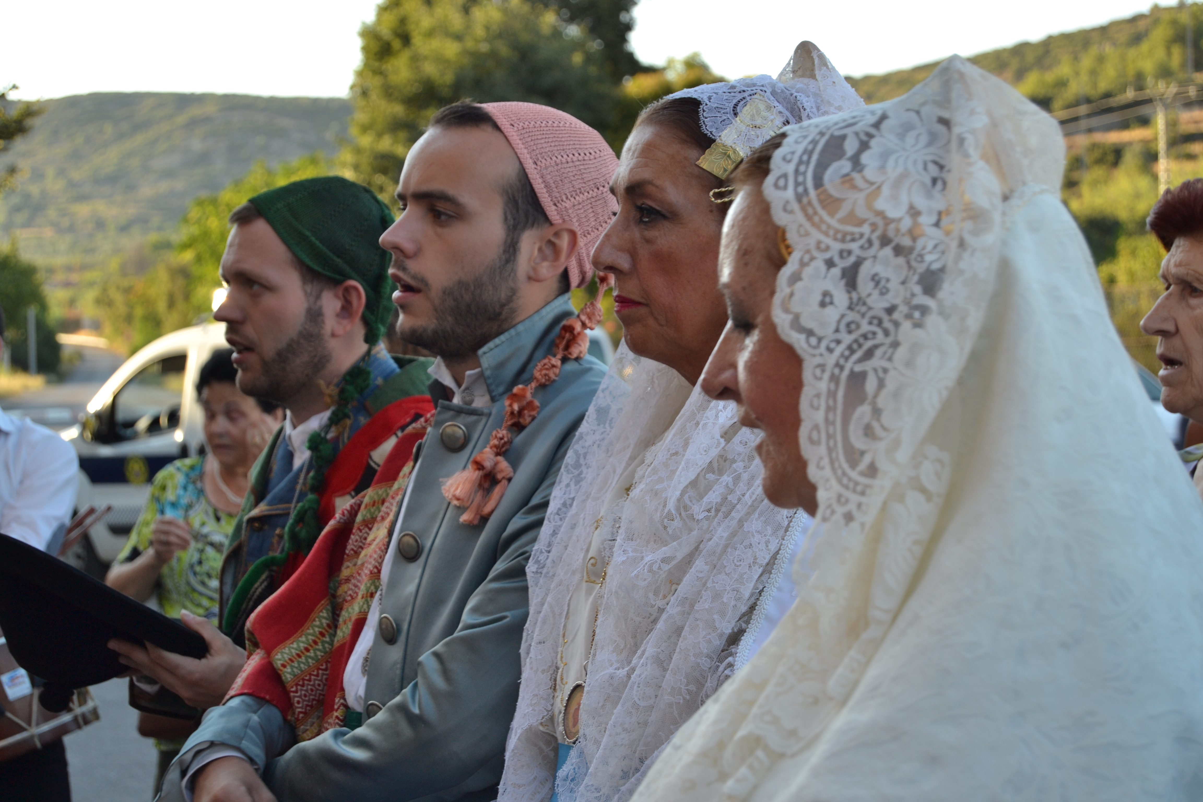 Cantos frente a la ermita de la Virgen de los Desamparados de Jérica (Castellón) el sábado día 12 de agosto. Con motivo de la recuperación de la antigua fiesta que la colonia de veraneantes y la cofradía de la Virgen de los Desamparados organizaba décadas atrás. This is a photography of a Folklore festival in Spain (Wikidata id Q47128911).